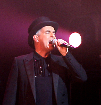 Pet Shop Boys live in concert on October 13, 2006. Taken at The Opera House, Boston. Photo by Kevin Church.